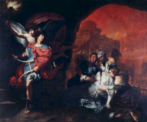 The Descent to the Underworld of Orpheus